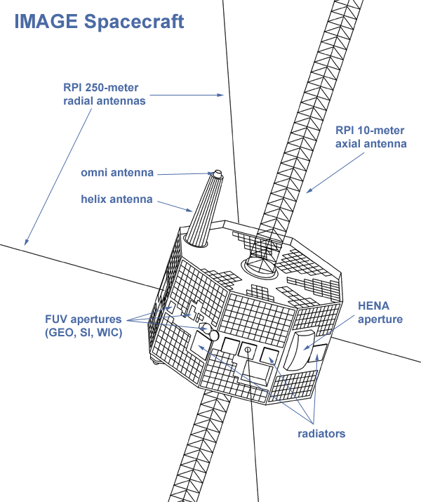 Isometric view of the IMAGE spacecraft